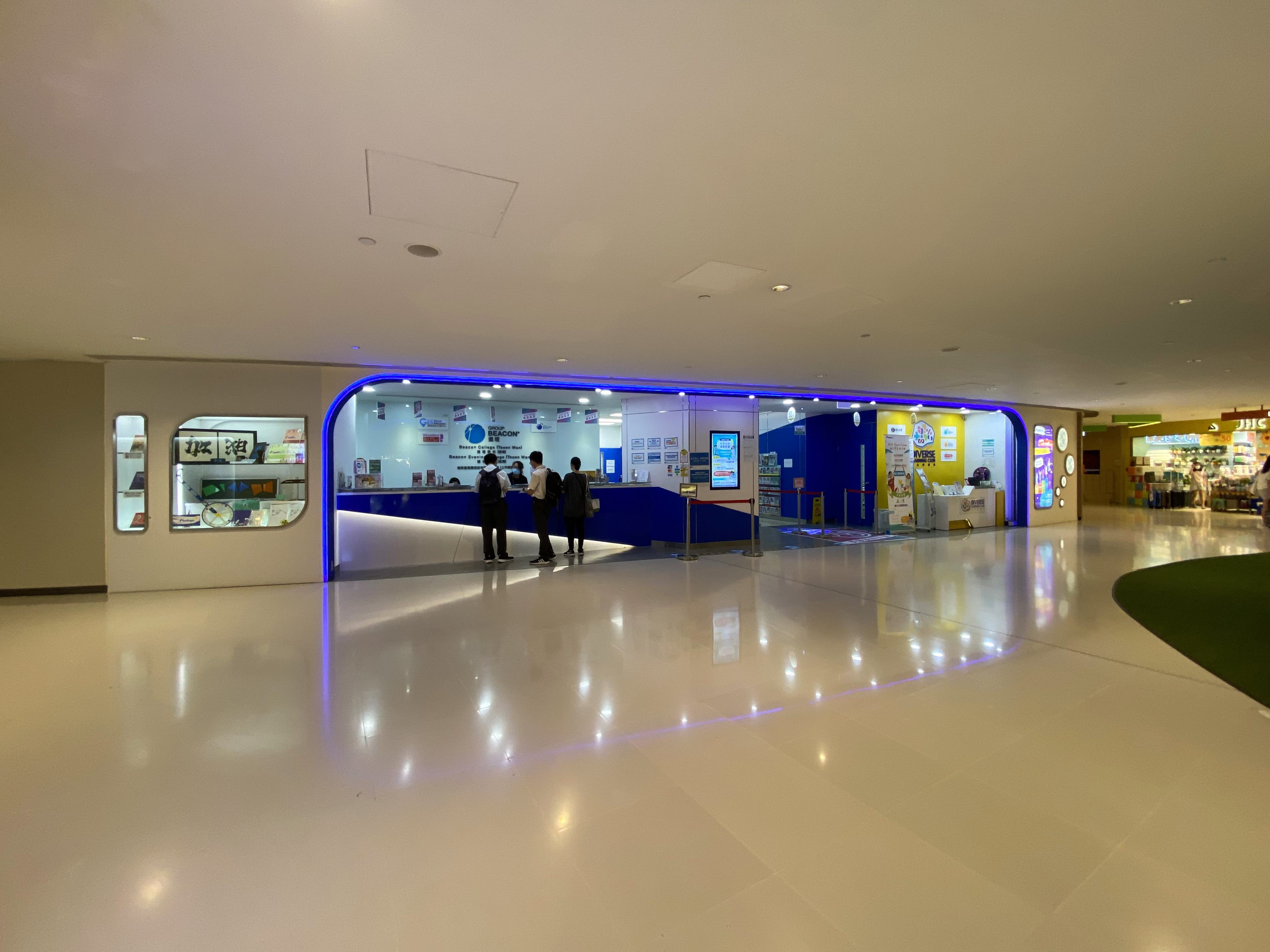 Beacon College Tsuen Wan